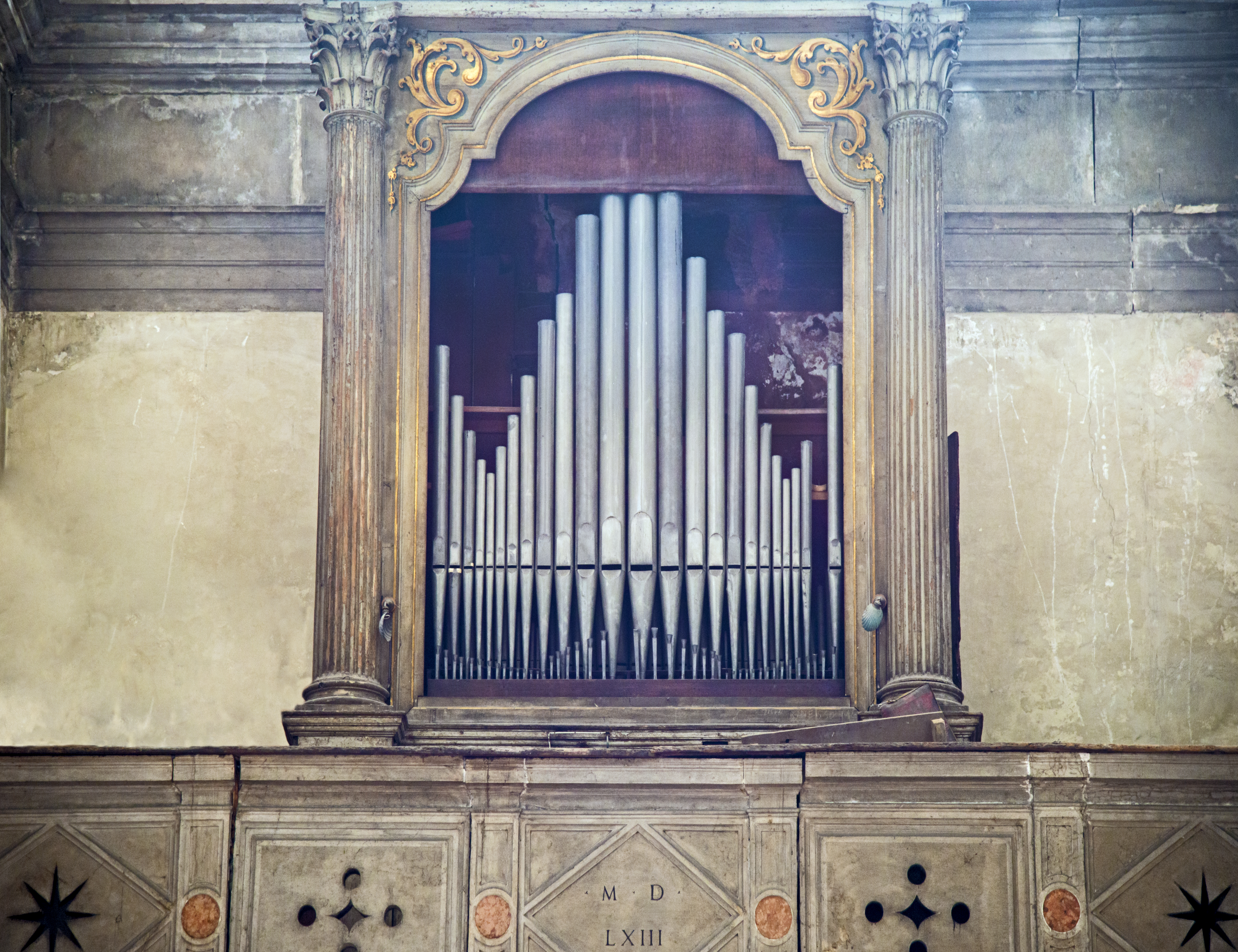 Church of San Fantin Venice - Organ